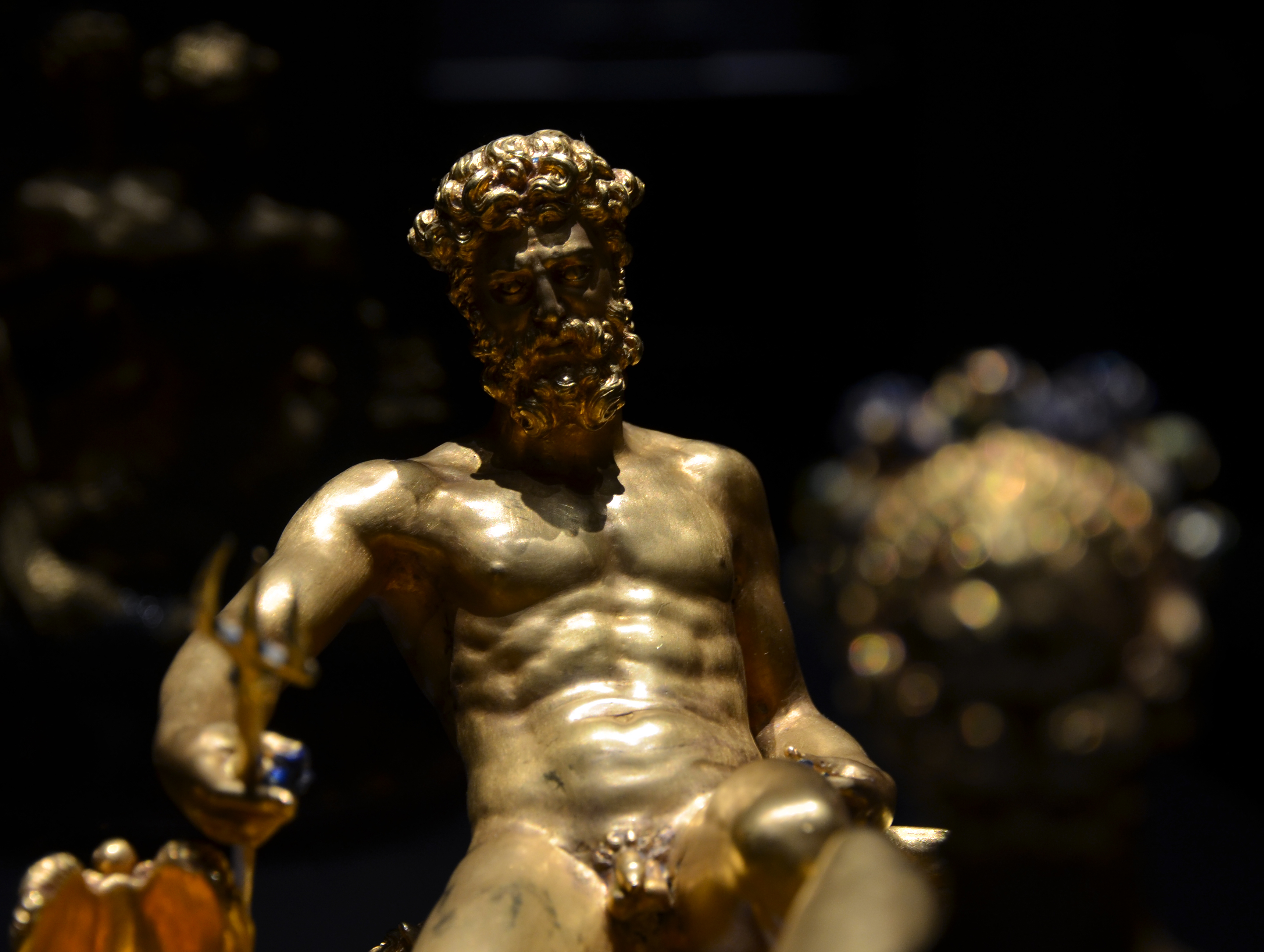 Detail of the "saliera" ( saltcellar in Italian ) made in 1543 for Francis I of France by Benvenuto Cellini ( 1500-1571). Part-enameled gold. Now in the Kunsthistorisches Museum in Vienna.